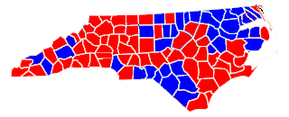 County results map of 2002 senate election in NC